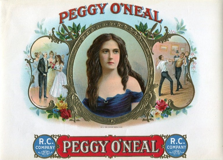 Old Cigar box lid depicting Margaret O'neal who became the wife of the Secretary of the Navy under Andrew Jackson. On the left we can see the President Jackson offering flowers to Margaret O'neal after the scandal with the Washington wives. On the right picture, we can see her husband during a duel with a man who insulted her. The original size of this Old Cigar box is about 6 inches by 10 inches